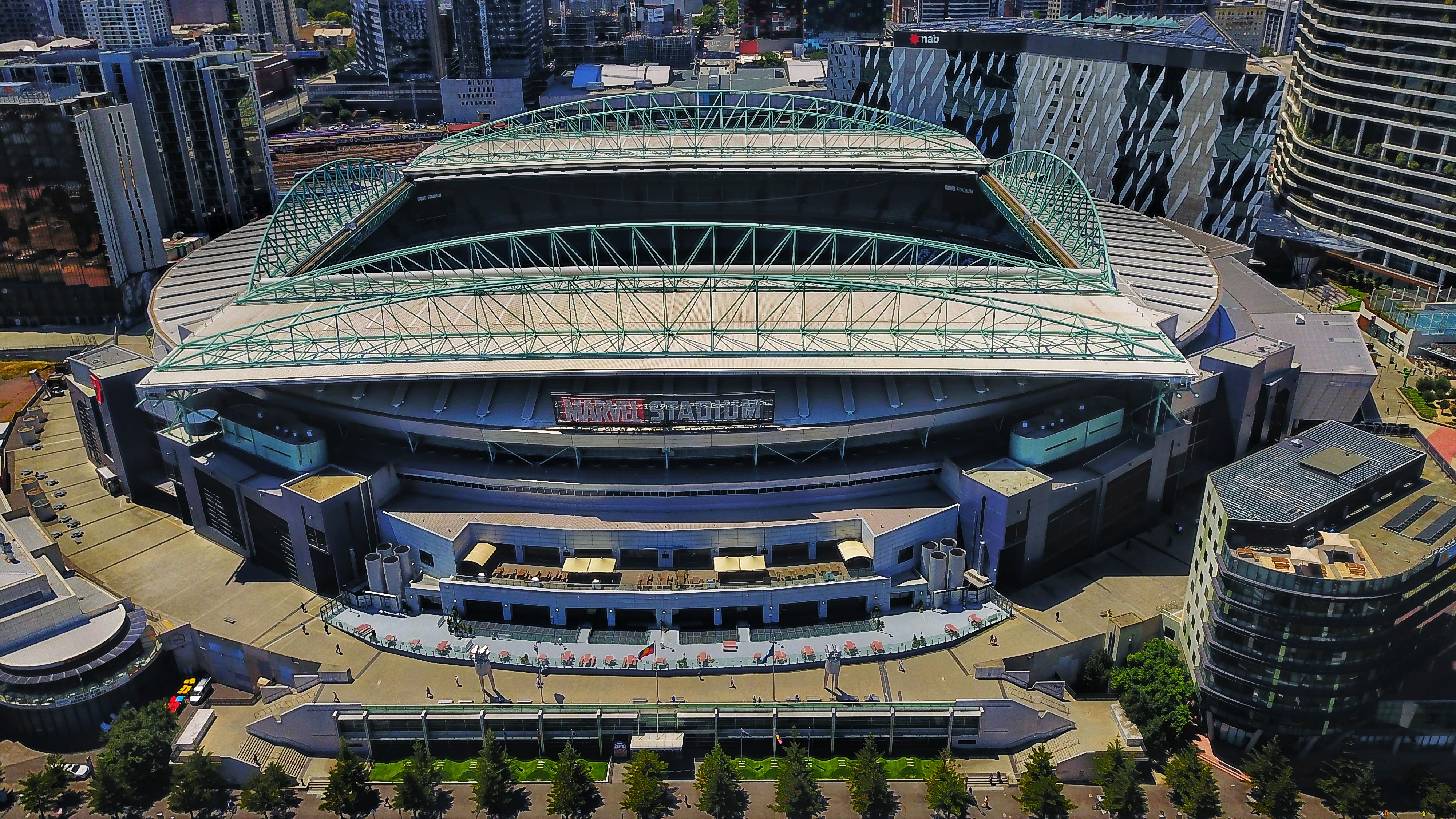 Marvel Stadium from an aerial perspective. Feb 2019.